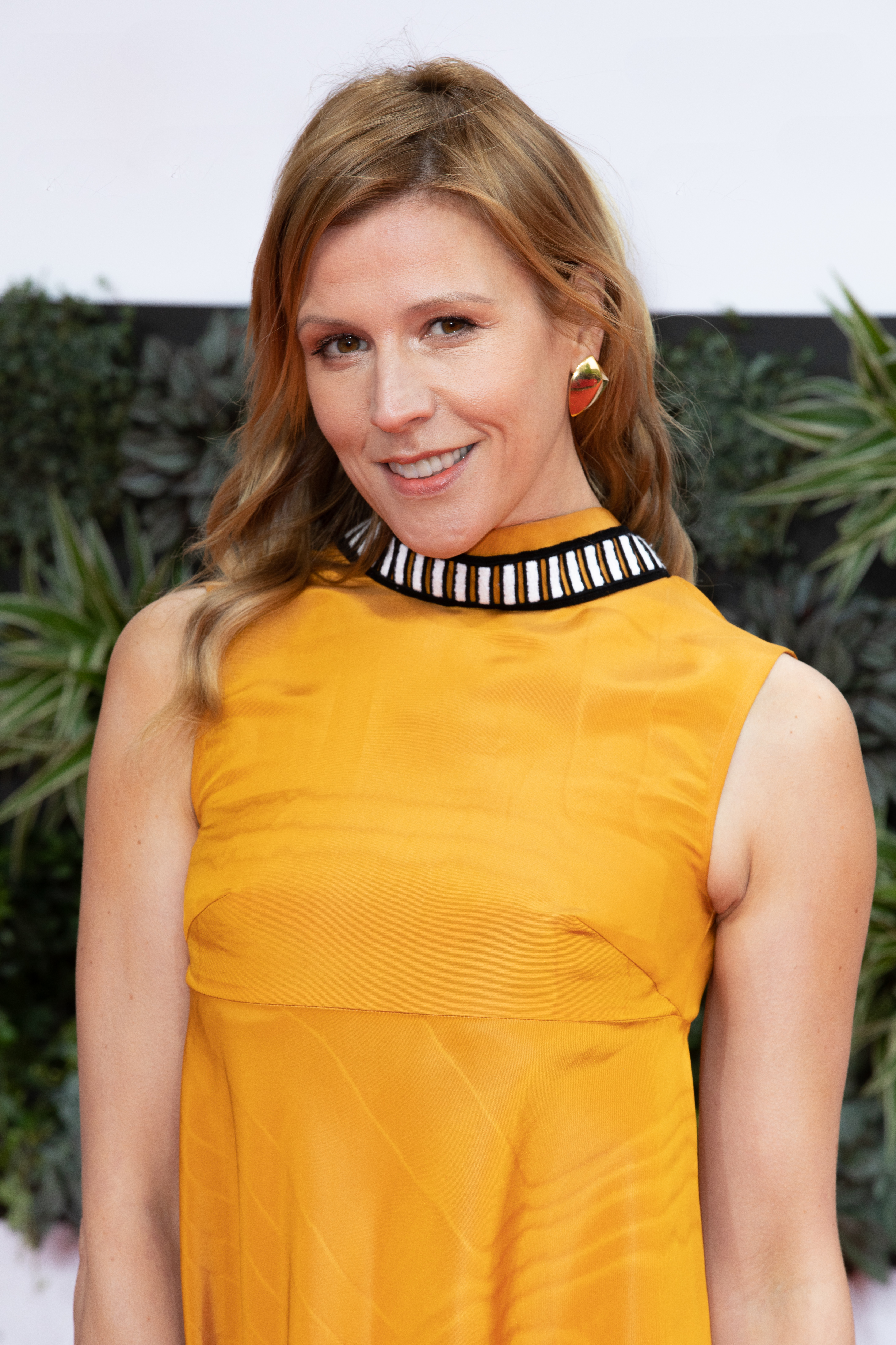 Franziska Weisz on the red carpet of the German Film Award 2019, Palais am Funkturm, Berlin.